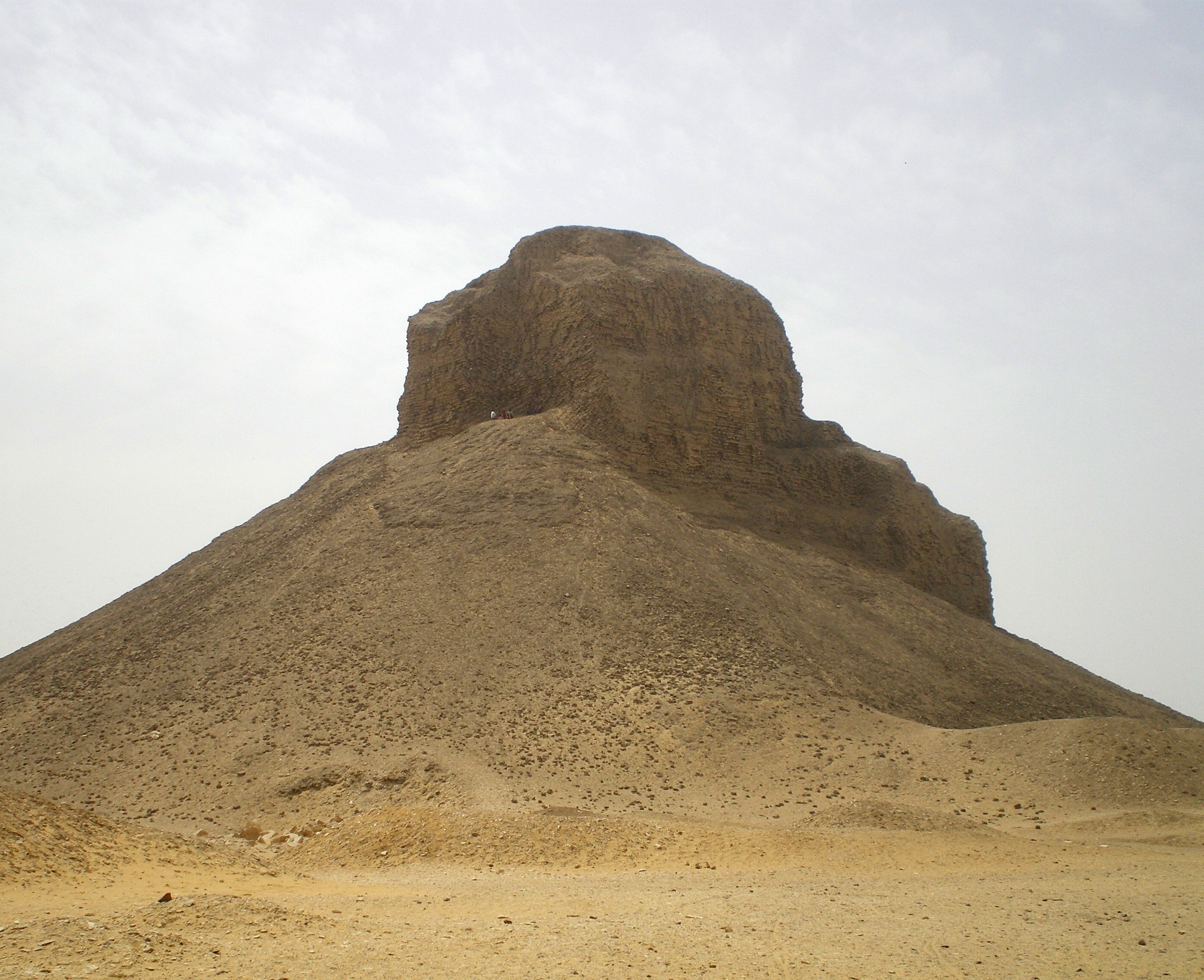 the so-called "Black Pyramid" of king Amenemhat III. (12th Dynasty) at Dahshur